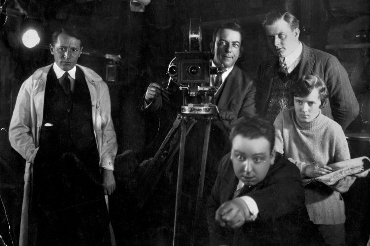 Publicity Still of the 1926/1927 silent film The Mountain Eagle, director: Alfred Hitchcock